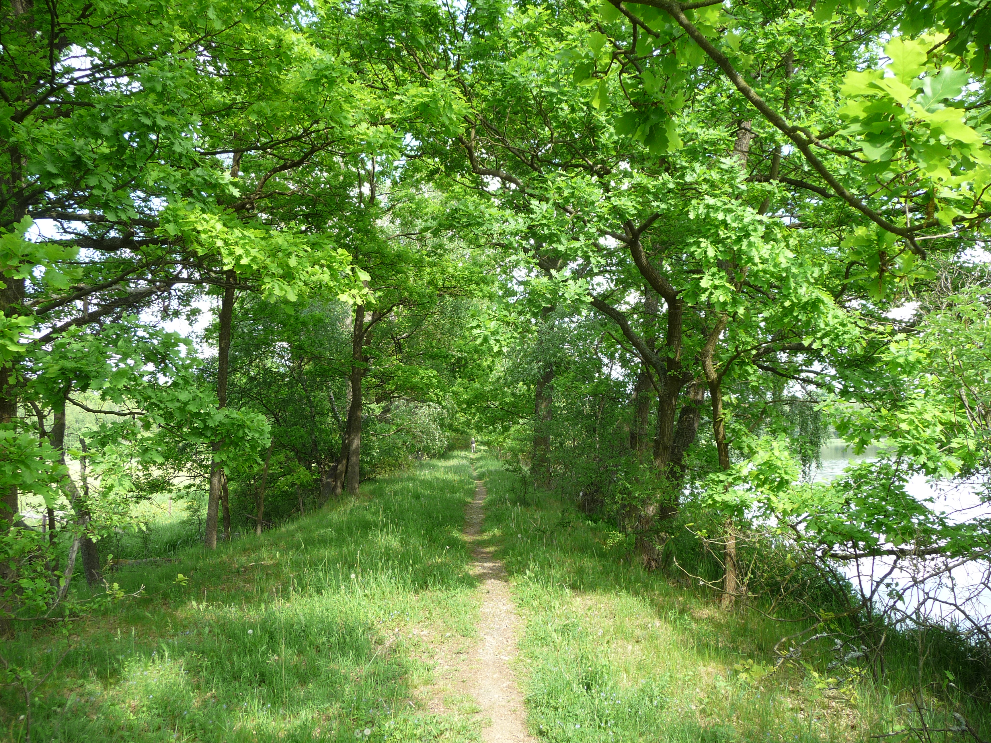 National natural monument Luční with mycological reserve near Sezimovo Ústí, Tábor District